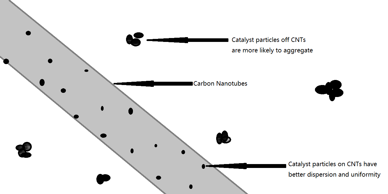 Carbon nanotubes help to improve the distribution of nano-particles.